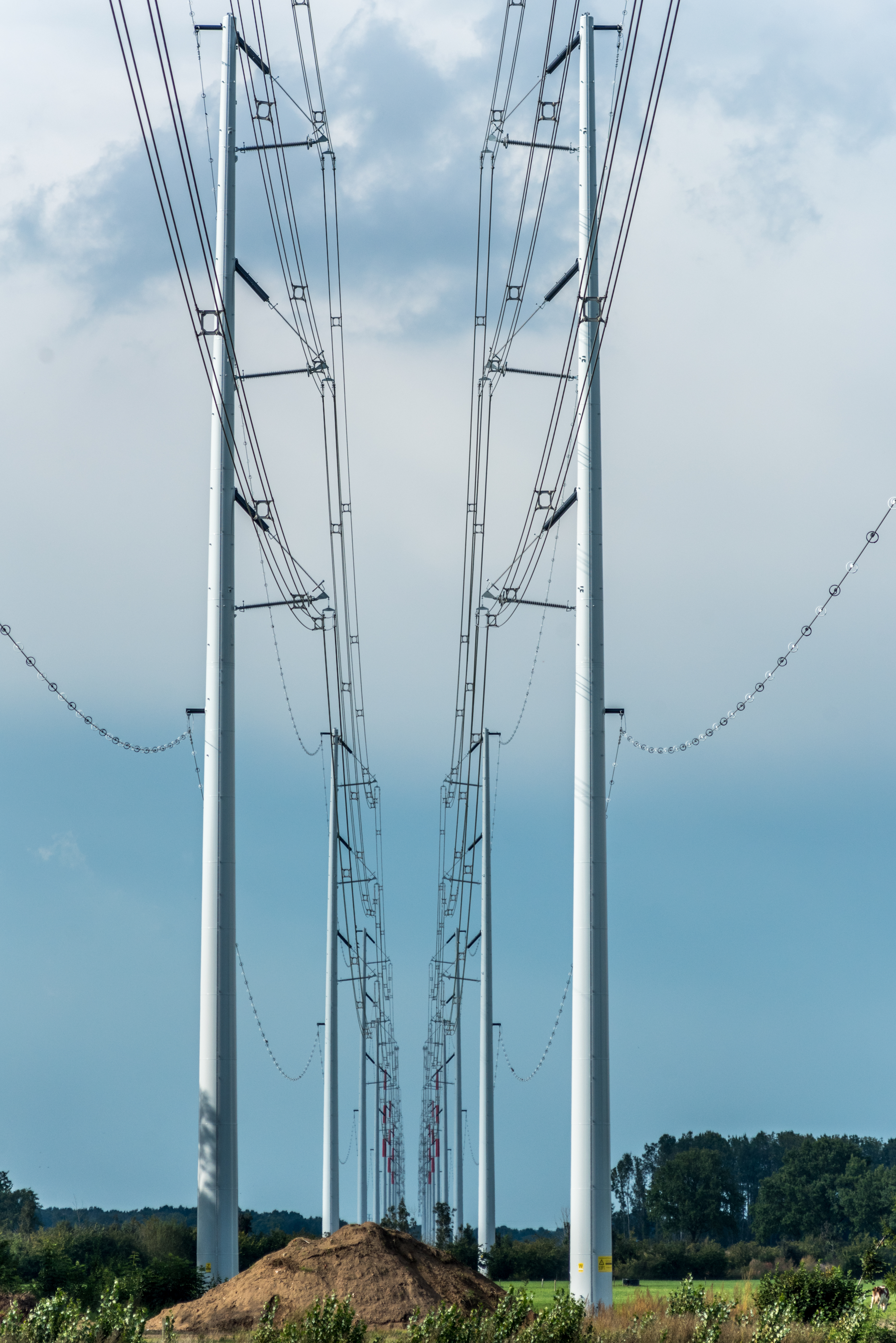 Wintrack pylons of the new 380 kV Doetinchem–Wesel power line in Voorst, Oude IJsselstreek, Netherlands.